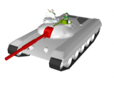 Tank cannon highlight